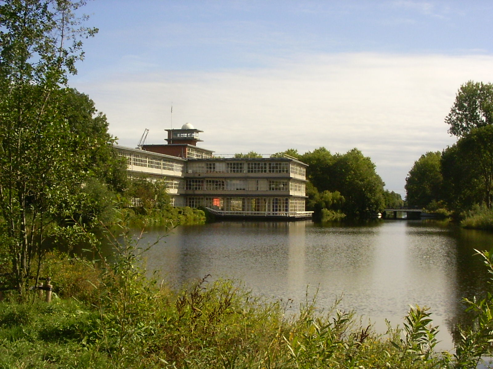 Protestant school center Buitenveldert, with observatory. At the right Brdige 811